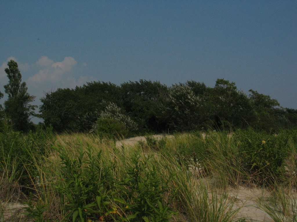 Typical GRNA Landscpaes